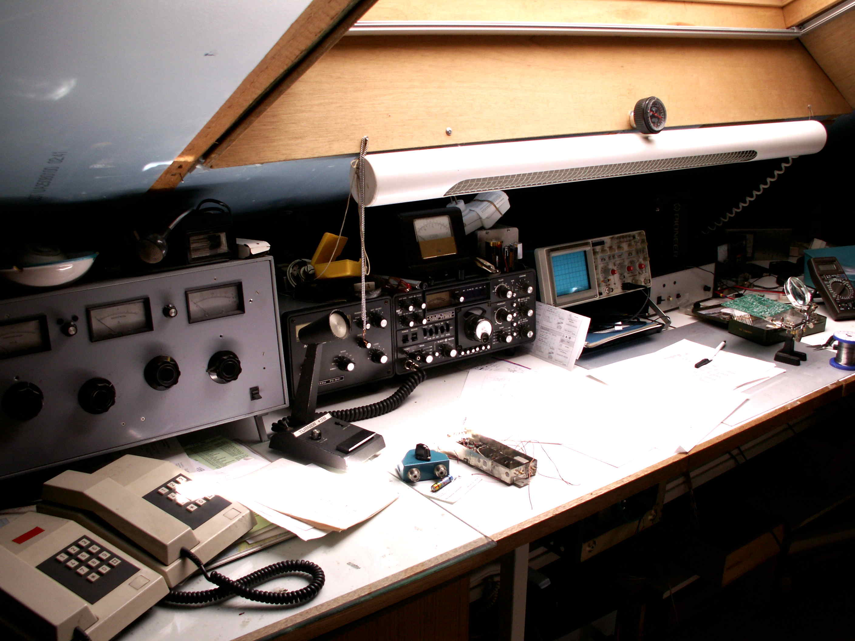 A picture of amateur radio equipment, used at an amateur radio station and connected to an outside antenna mast. The kind of euipment used here (analog) is today outdated and is slowly being replaced by digital stations working via satellite (Orbiting Satellite Carrying Amateur Radio).